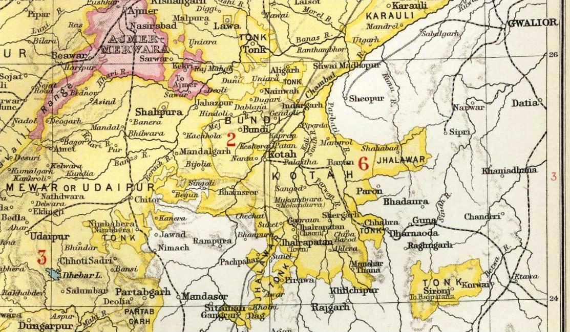 1909 Imperial Gazetteer of India Rajputana map section